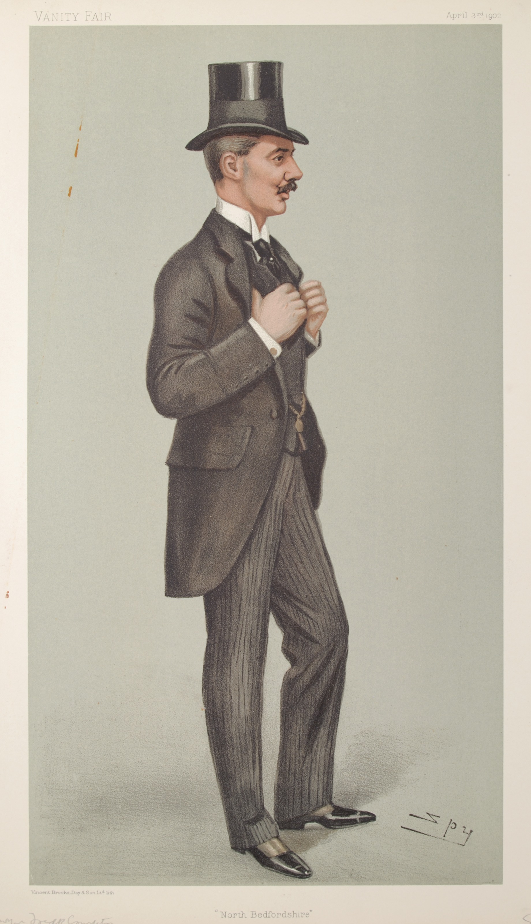 Statesmen No. 749: Caricature of Lord Alwyne Frederick Compton, D.S.O., D.L., M.P.. Caption read "North Bedfordshire".